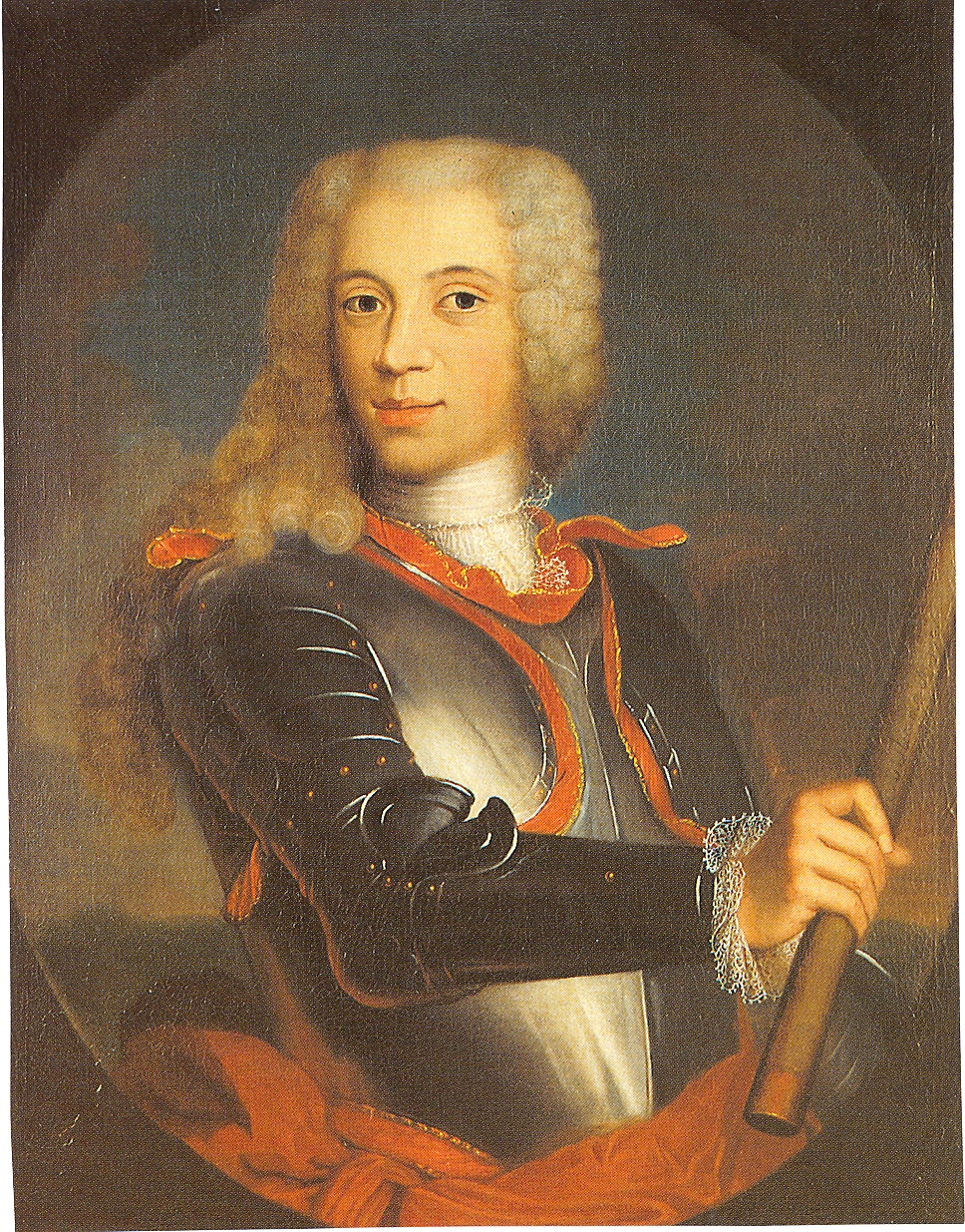 William IV, Prince of Orange